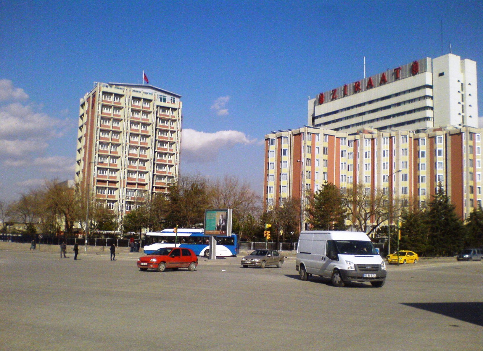 Tandoğan Square, Ankara